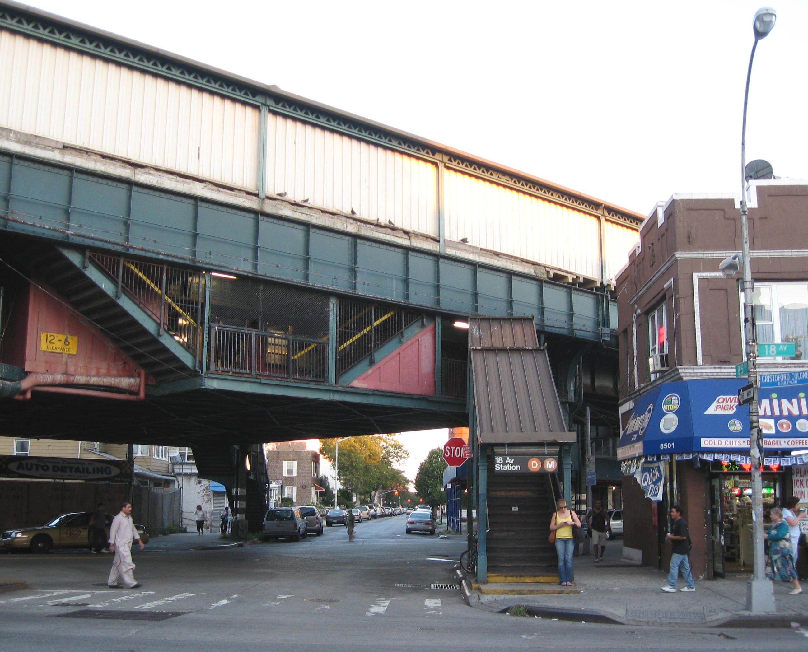 Looking southeast along 85th Street at en:18th Avenue (BMT West End Line) station near dusk of a sunny day.